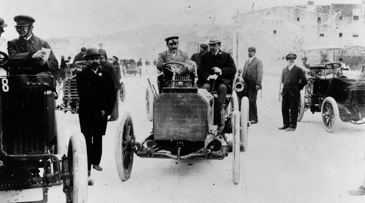 The Nice Week, 04 - 11.04.1902. The Nice – La Turbie mountain race on 07.04.1902. George Lemaître is pictured here with a 40 hp Mercedes Simplex. Lemaître won second place in the category: racing cars weighing more than 1000 kg.